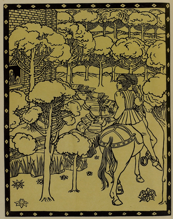 Etching from Beatrys (La Légende de Béatrice), designed by Charles Doudelet, engraved by Ed. Pellens, published by Buschmann in Anvers. From : L'Art flamand et hollandais. Revue mensuelle illustrée, vol. year 1904 (July-Dec.).